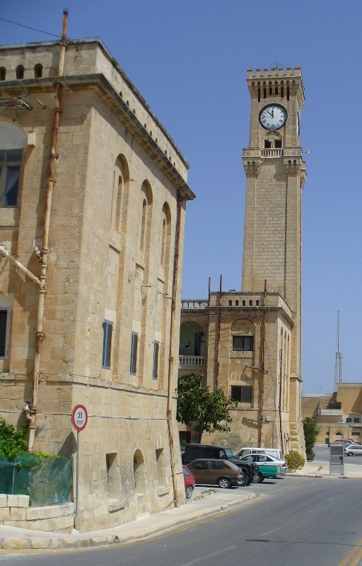 Mtarfa Clock Tower.